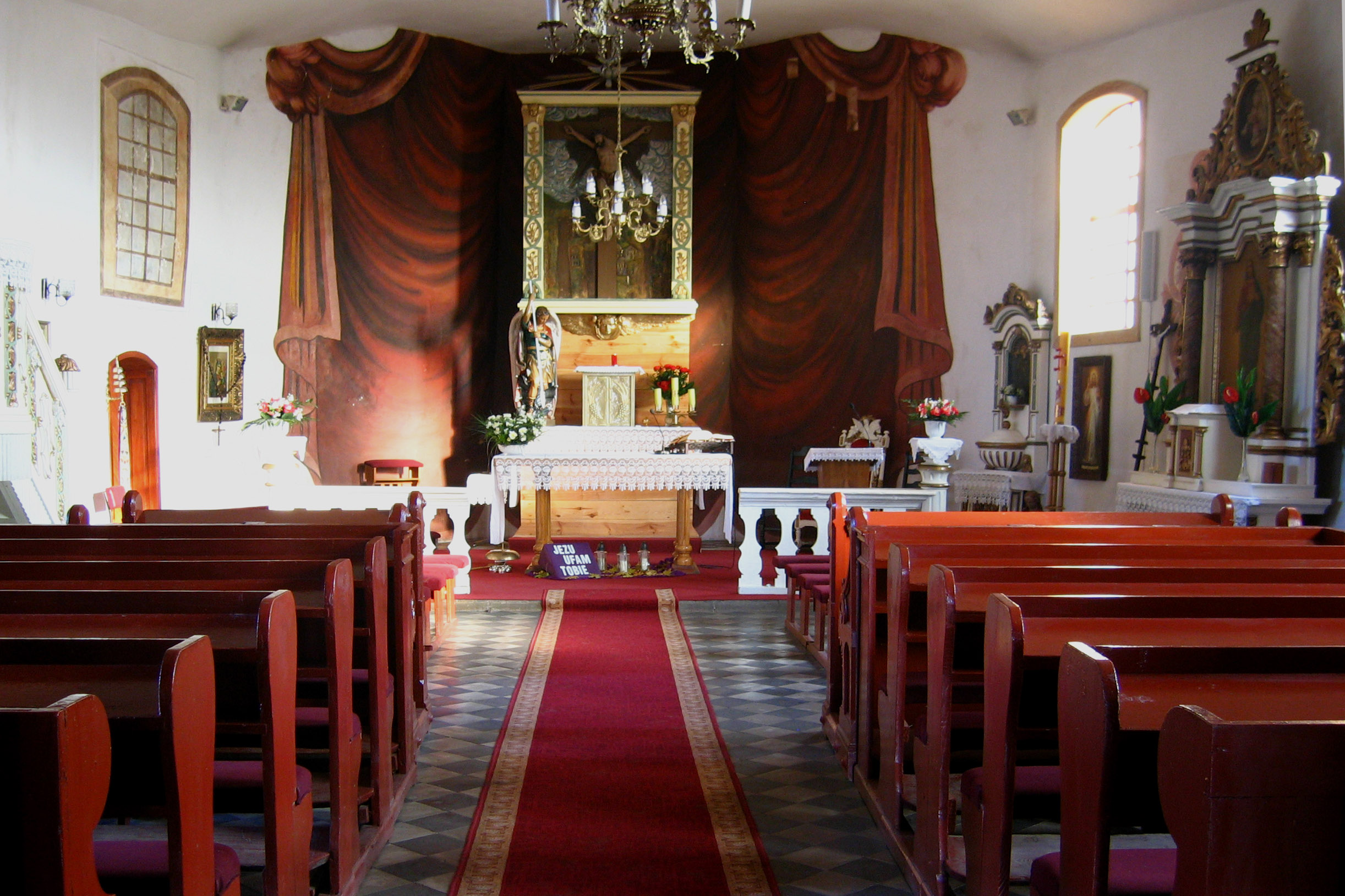 St Michael's Church, Uzarzewo (interior)